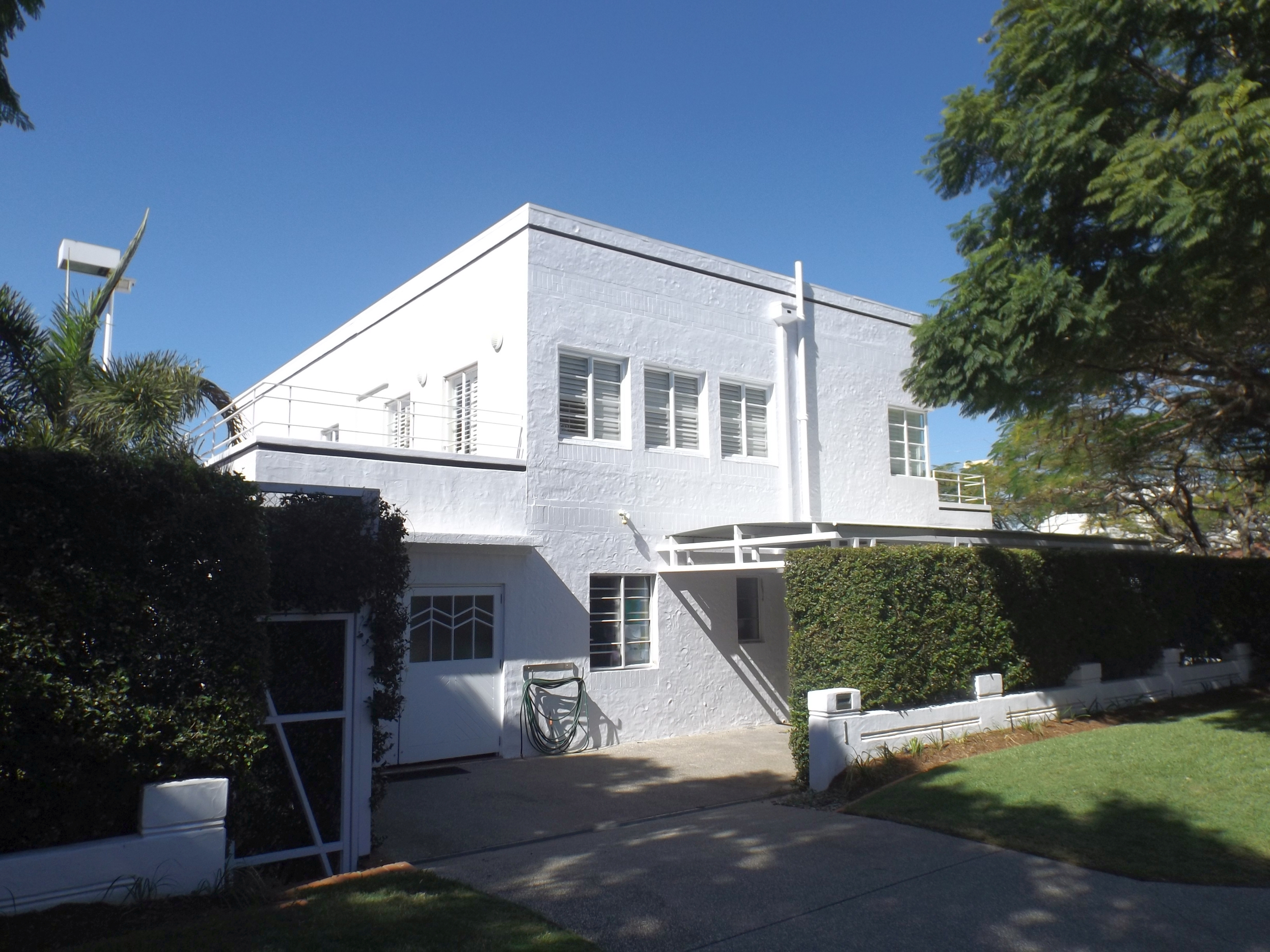 Photo of Chateau Nous at Ascot, Brisbane, Queensland, Australia.